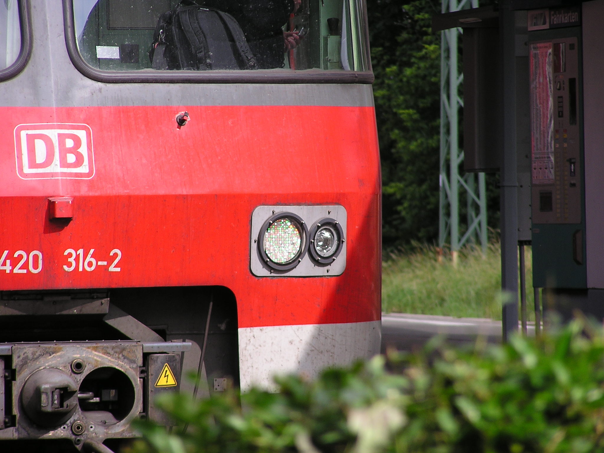 Upgraded LED-headlights of an ET 420